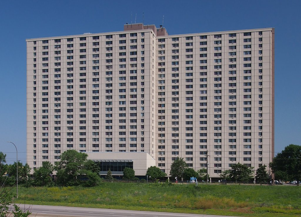 Skyline Tower, 1247 St. Anthony Ave., St Paul, Minnesota, USA. Viewed from the south-southeast across Interstate 94.